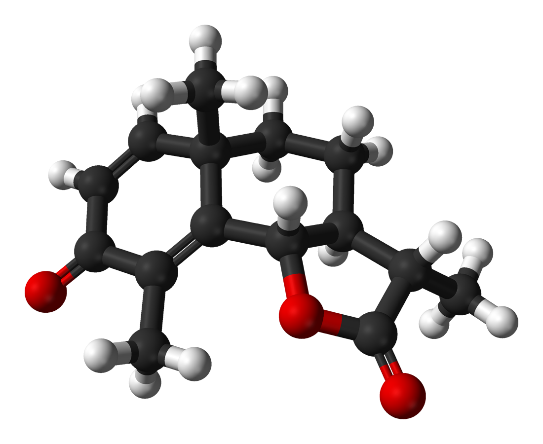 Ball-and-stick model of the α-santonin molecule, C15H18O3. X-ray crystallographic data from C. Kitabayashi, Y. Matsuura, N. Tanaka, Y. Katsube and T. Matsuura (December 1985). "Structure of α-santonin". Acta Cryst. C41 (12): 1779-1781. Image generated in Accelrys DS Visualizer.